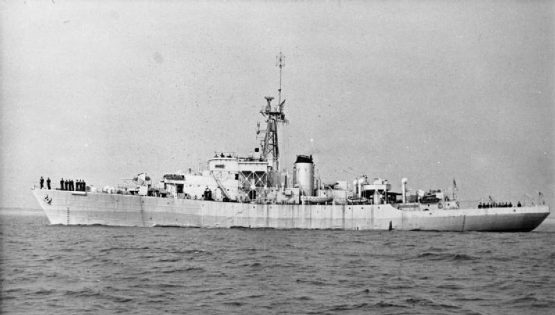 Photograph of British Castle class corvette HMS Hedingham Castle (K529) underway on completion.